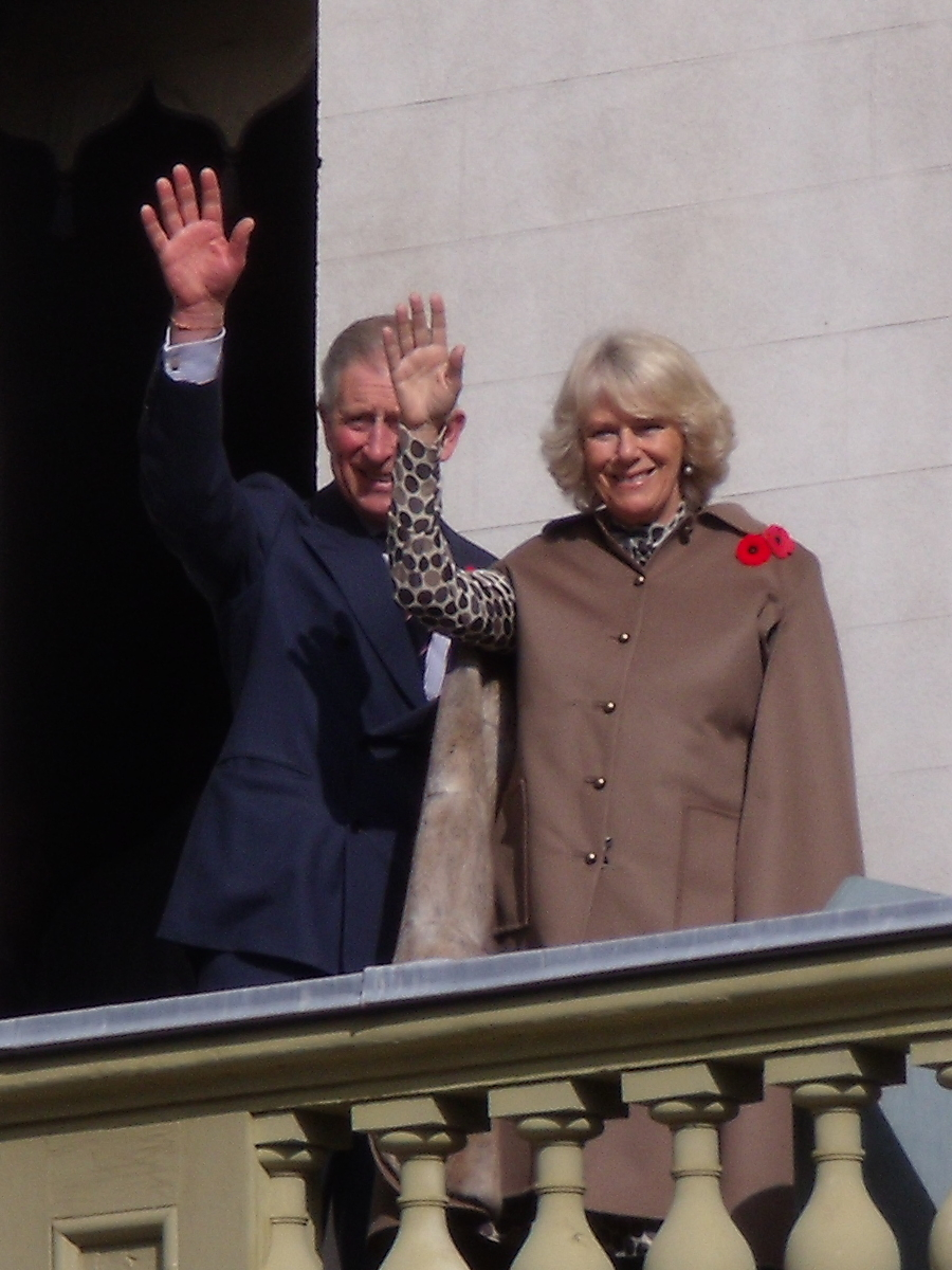 Full size File:Royal Visit Dundurn Castle Balcony.JPG. Other crops here and here